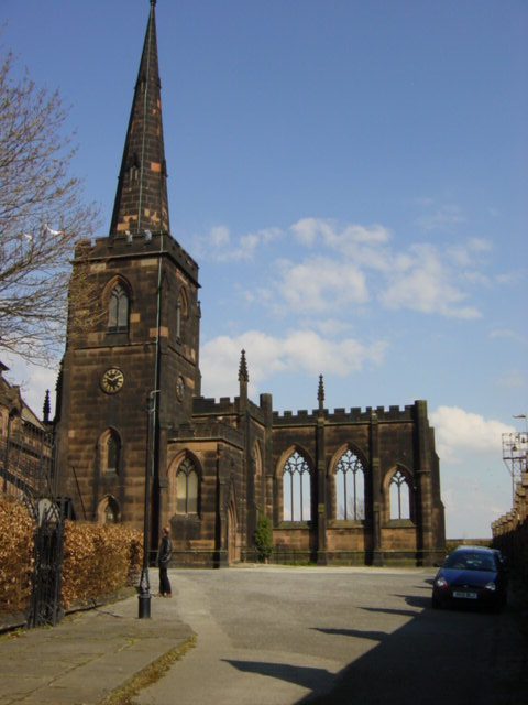 Exterior of Birkenhead Priory.